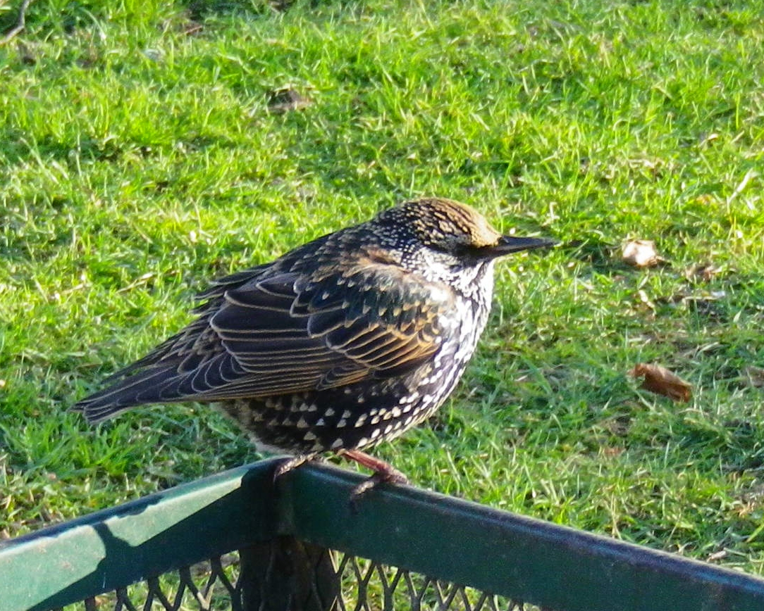 A Sturnus vulgaris bird in Halifax, Canada.